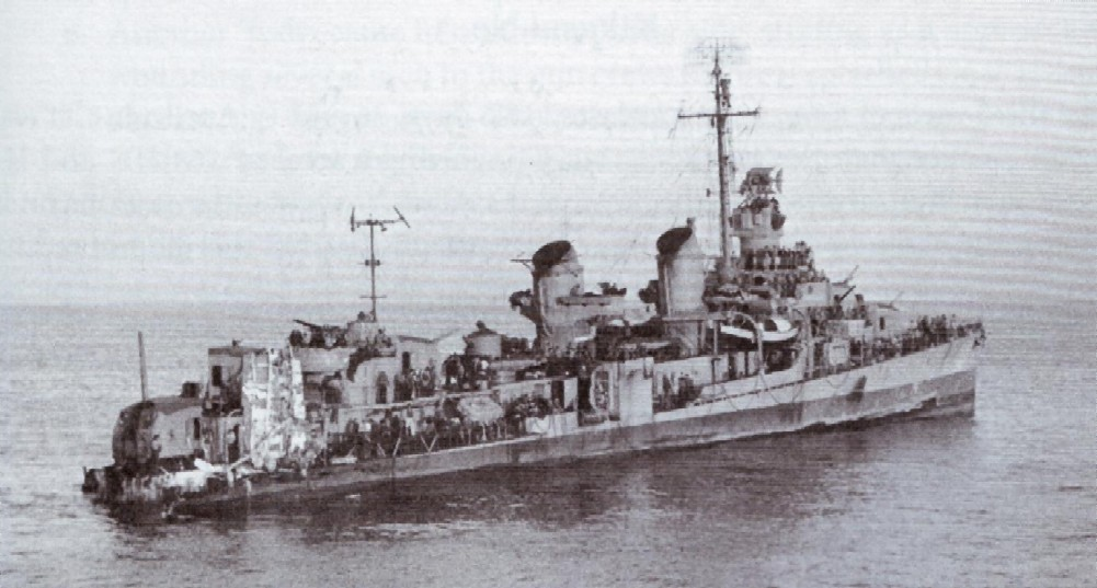 The U.S. Navy destroyer USS Sigsbee (DD-502) on 14 April 1945, after she was hit by a kamikaze suicide plane. Her stern was blown off and 23 sailors were killed in the attack.